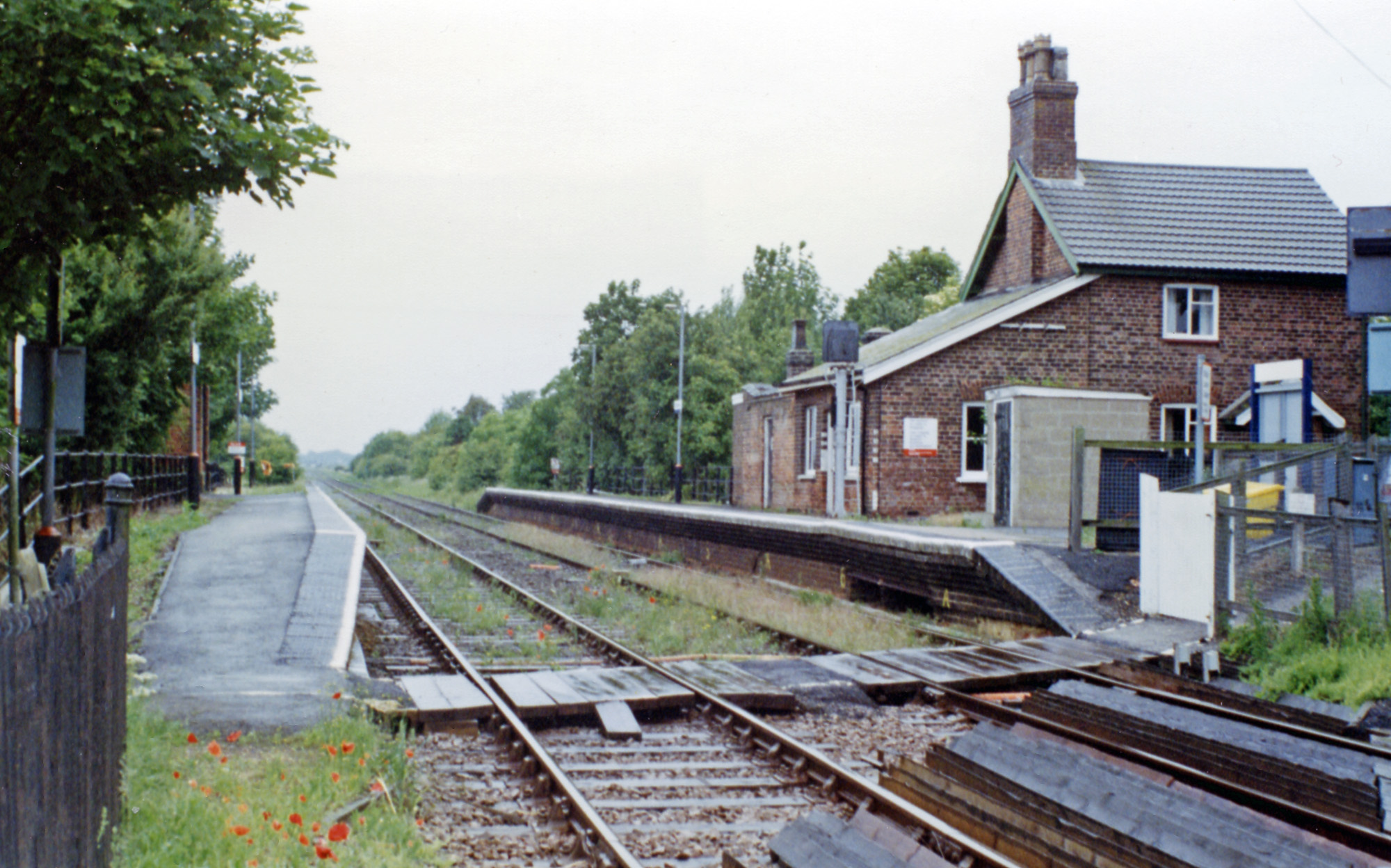 Havenhouse Station, Near Croft, Lincolnshire, Great Britain. View SW, towards Firsby; ex-GN Firsby - Skegness branch. Since 5/1/70, when the former main line Boston - Grimsby was closed, the Skegness line has been the 'main' line.